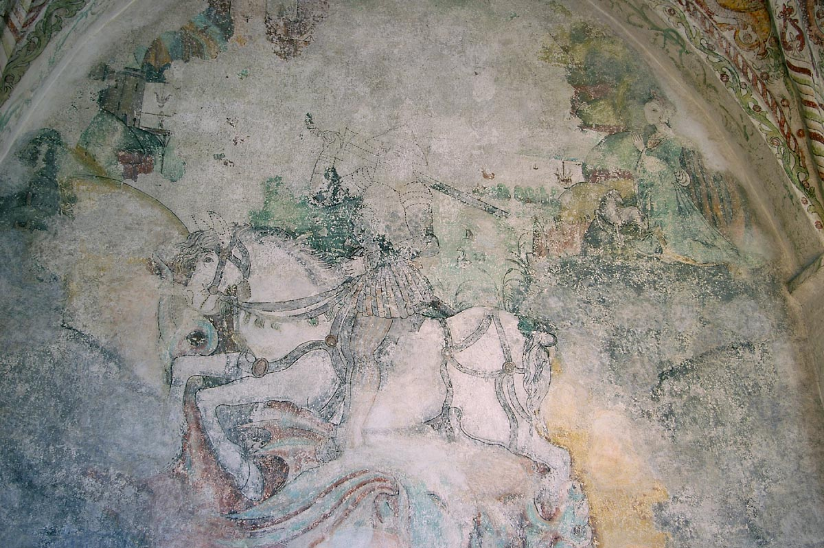 Paintings from 1460 in The Krämare chapel in St Peter church, Malmö, Sweden.